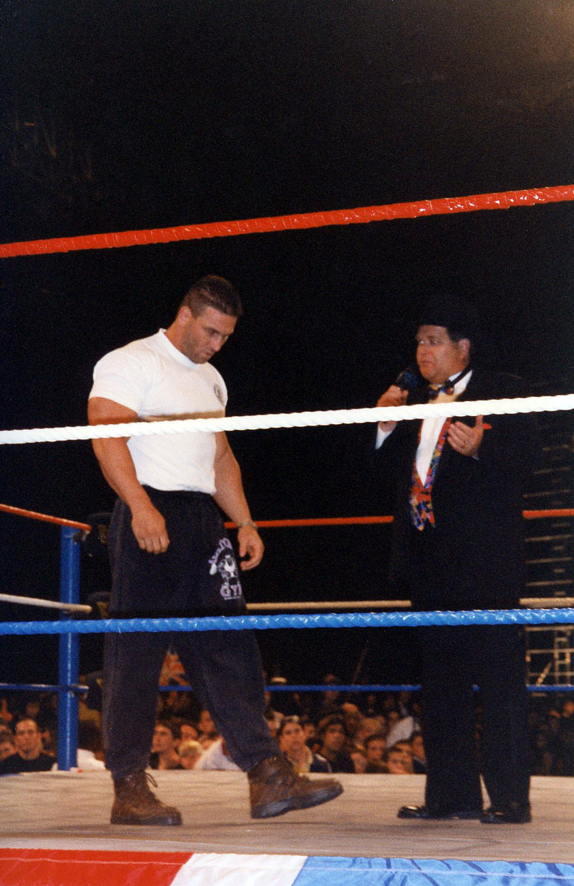 Ken Shamrock being interviewed by Jim "JR" Ross.